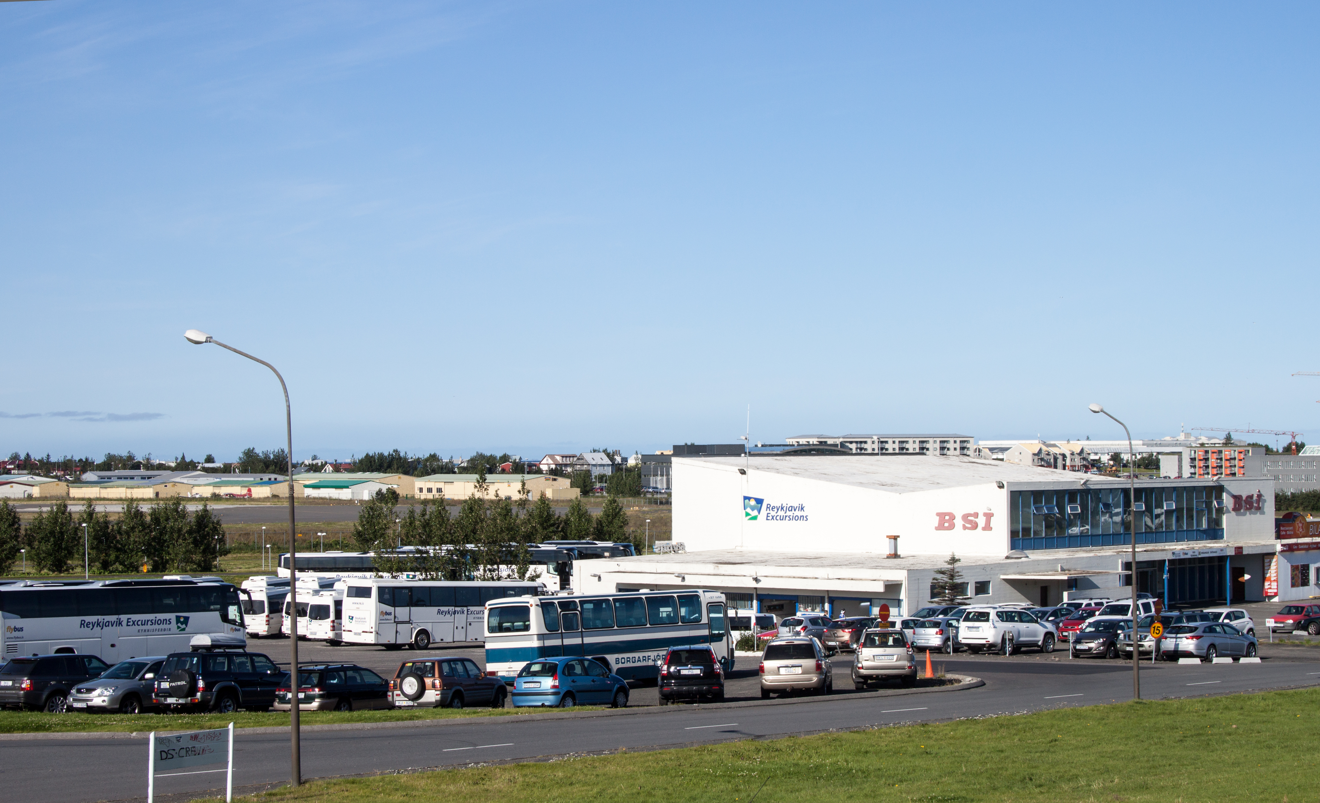 Central bus station at the Reykjavík Airport